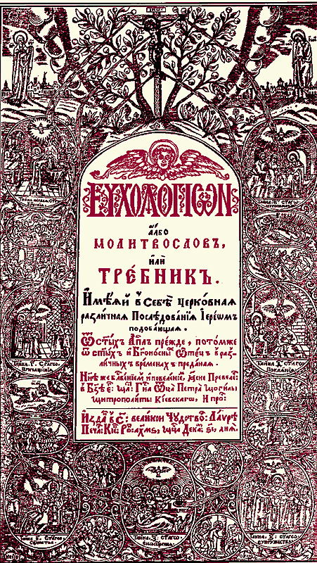 Trebnik of Peter Mogila